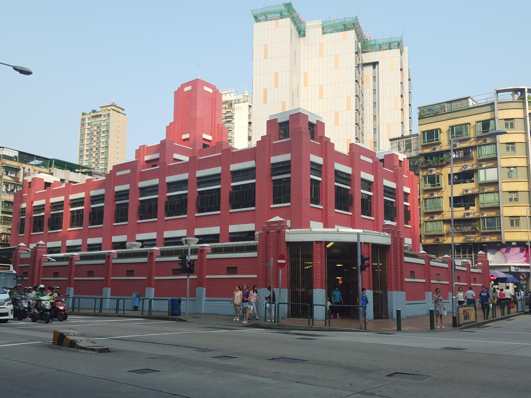 Red Market, Macau